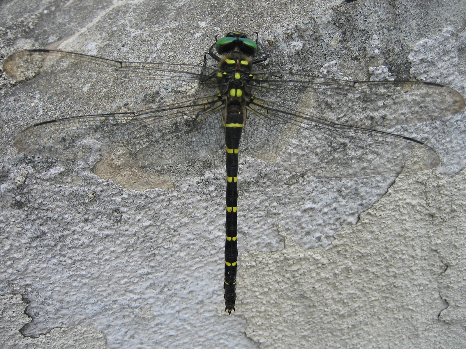 A picture of Anotogaster sieboldii in Aizu-wakamatsu, Fukushima Prefecture, Japan. Picture was taken with a Canon Power Shot SD450 Digital Elph camera and modified using a Paint Shop program on a laptop computer.